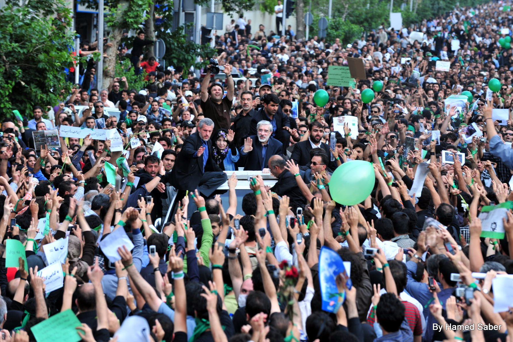 Silent demonstration for saying condolence to family of this week martyrs A lot more photos from this day: Viva Iran!